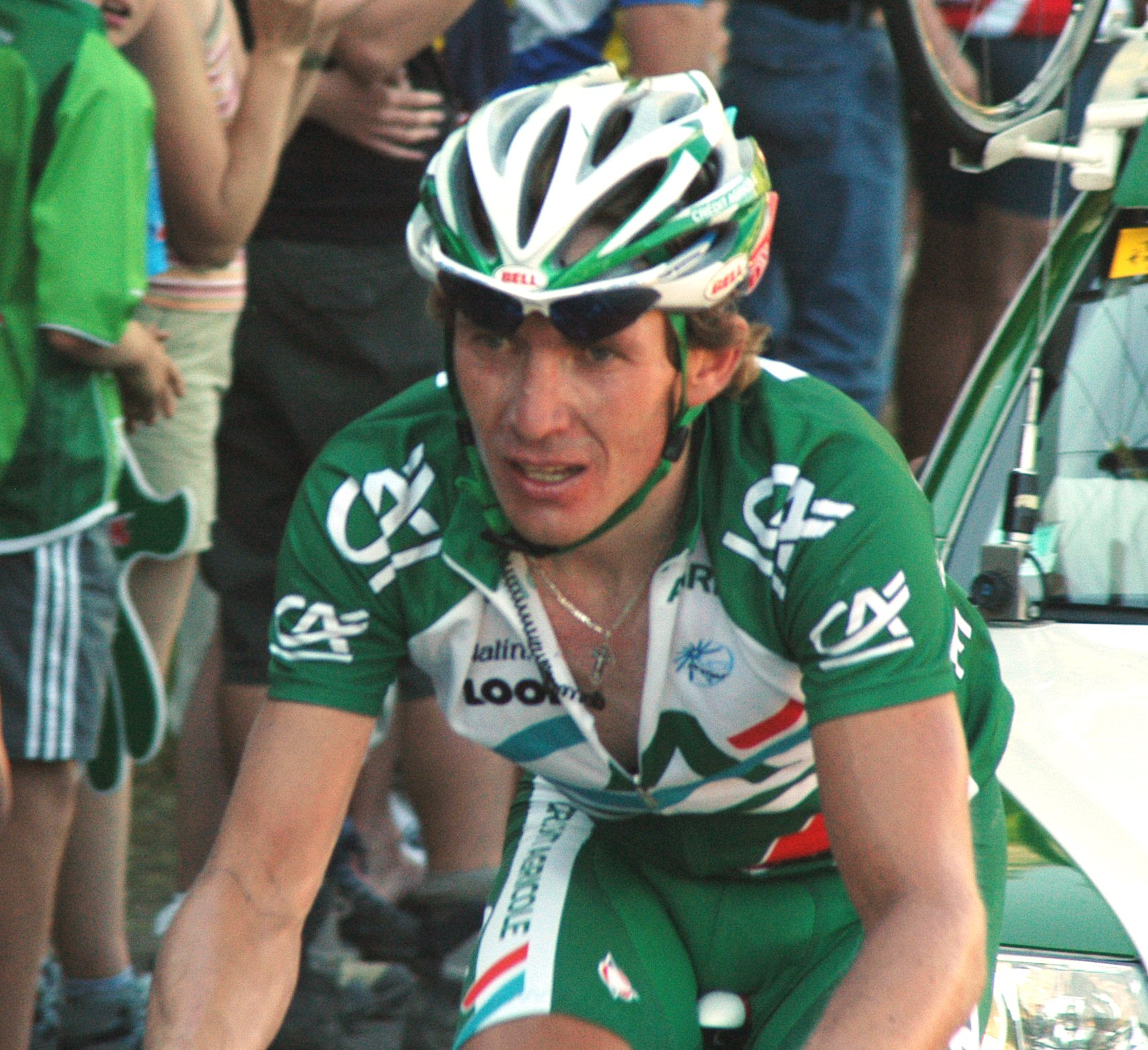 Fofonov at stage 7 of the Tour de France 2007 on the Col de la Colombière.